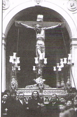 Cristo de la Piedad antes de guerra